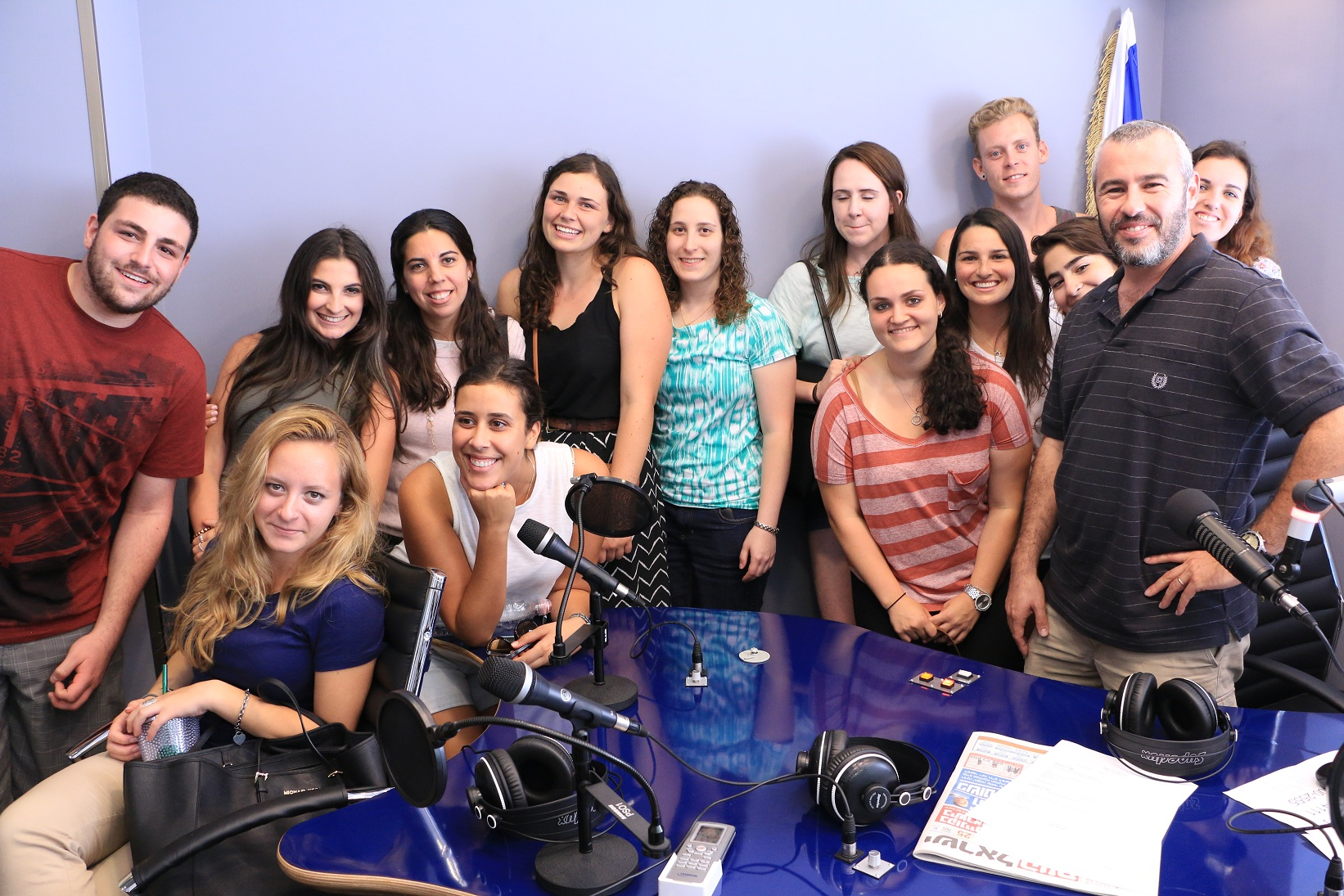 Yishai Fleisher with Hebrew University students at the Voice of Israel studios